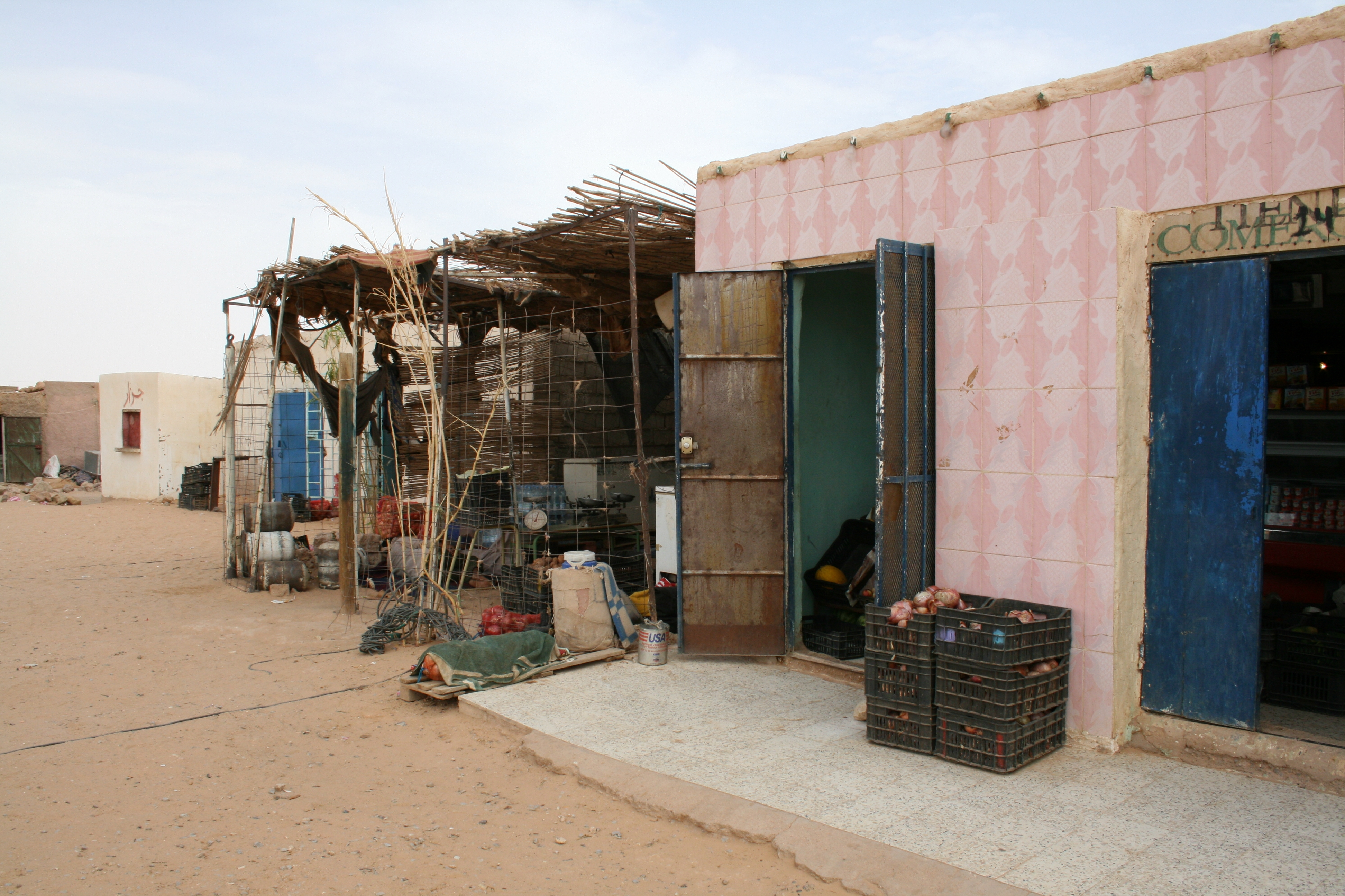 A typical shop in the Saharawi refugee camps in Tindouf. This taken i Rabouni camp in 2009.